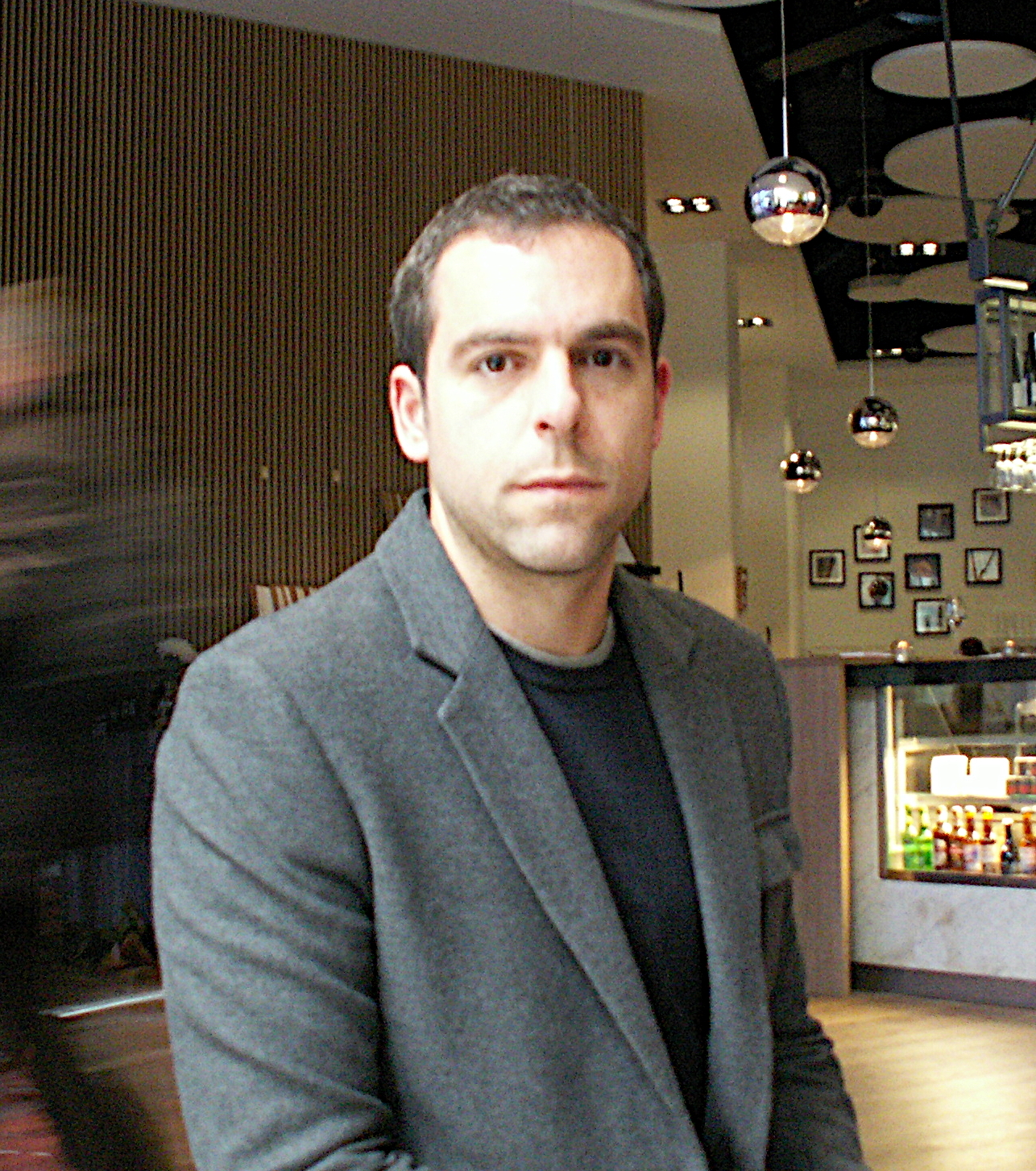 At the Göteborg Book Fair 2014.